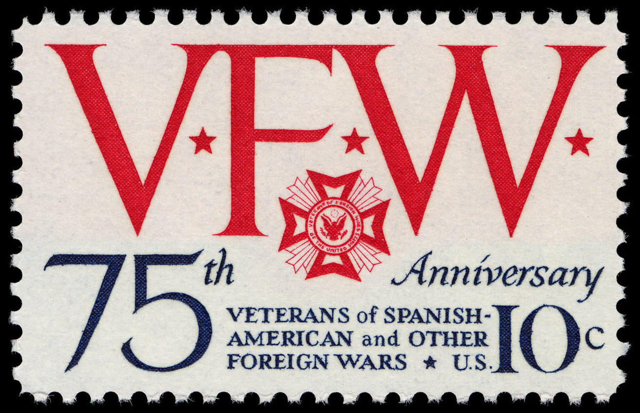 Veterans of Foreign Wars 10c 1974 issue U.S. stamp VFW - 75th Anniversary - VETERANS of SPANISH-AMERICAN and OTHER FOREIGN WARS * U.S.